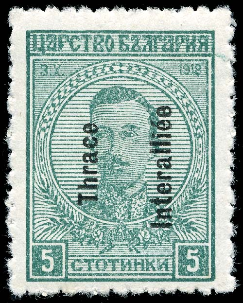 Thrace Allied occupation 5s overprint stamp of 1919